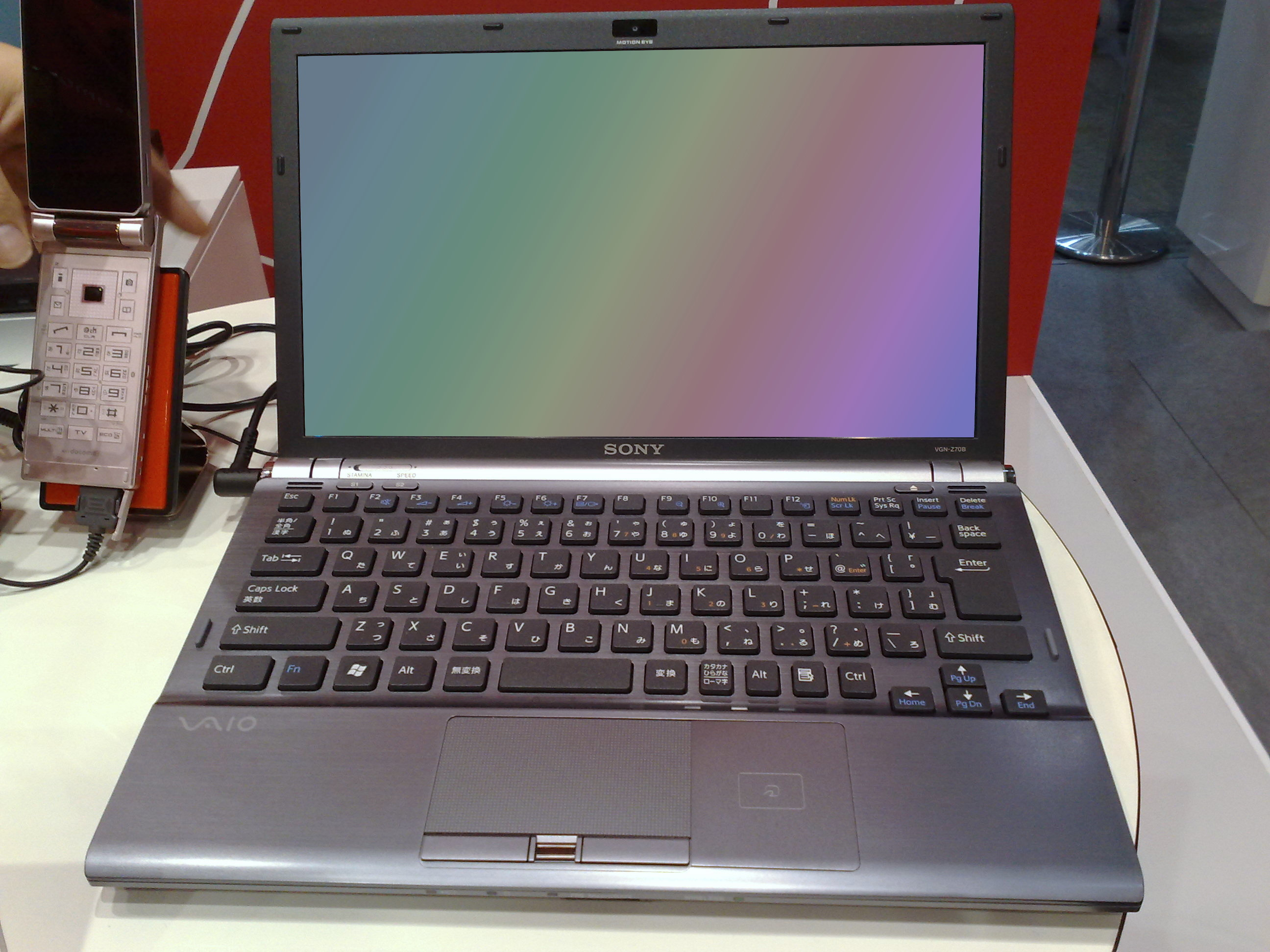 Expo Comm Wireless Japan 2008: Sony VAIO Z.